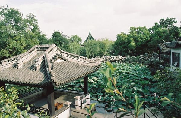 Liyuan Gardens in summer, on 8th August 2009 before a Typhoon. Film: Kodak ProFoto 100